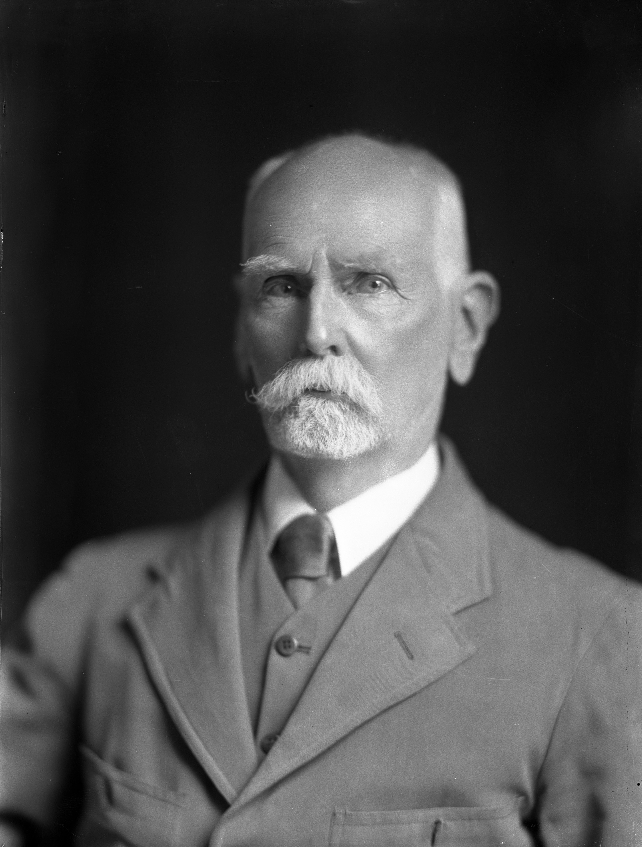 Head and shoulders portrait of Dr Leonard Cockayne. Photograph taken by Stanley Polkinghorne Andrew in 1928.